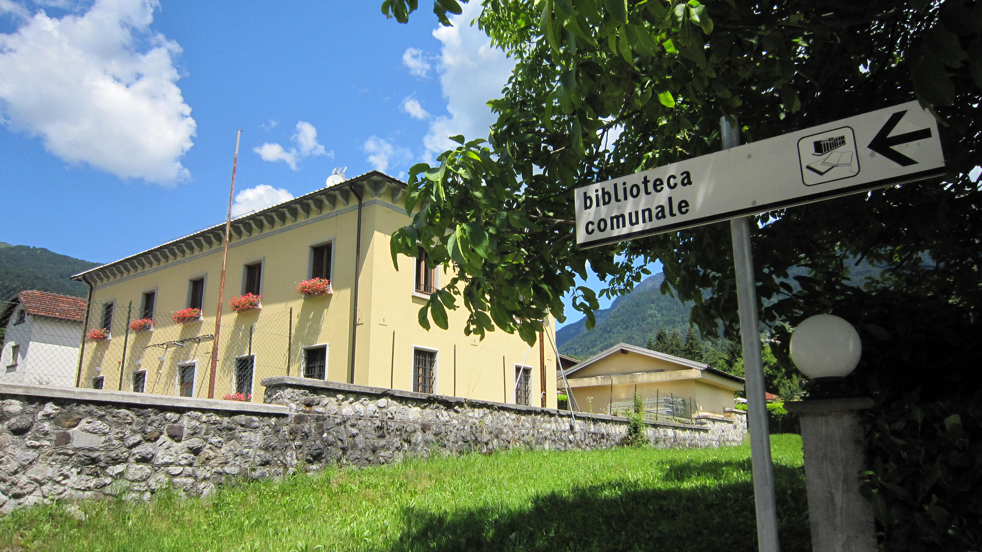 biblioteca paularo